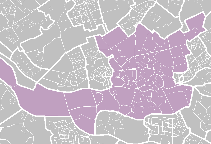 All quarters of Rotterdam (purple), Netherlands